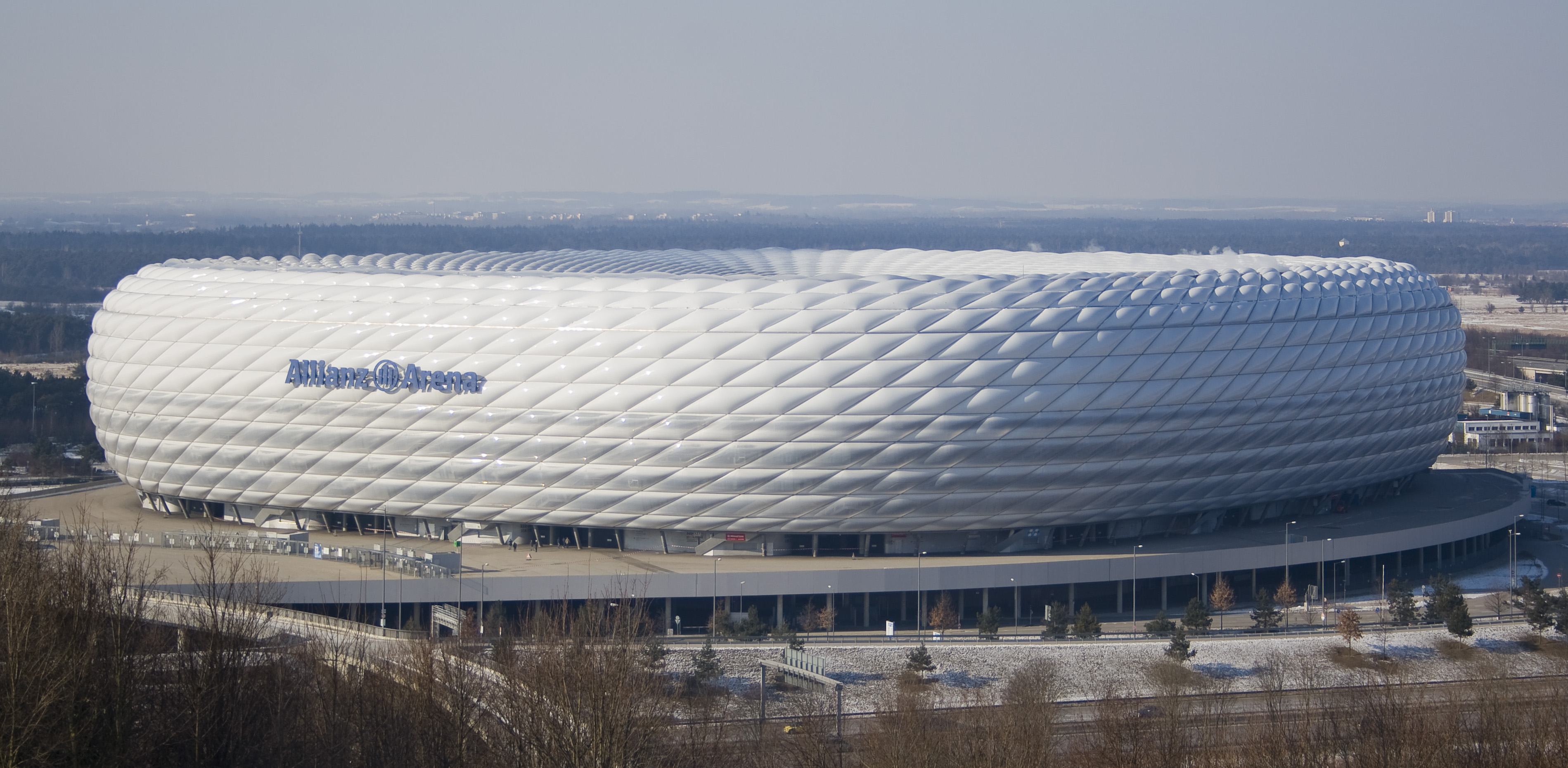 Allianz Arena, Munich, Germany